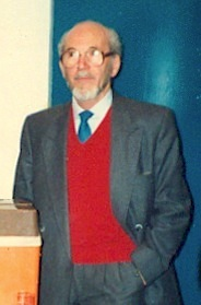 René Lepelley in 1990, Paris 13 University, Villetaneuse, France.